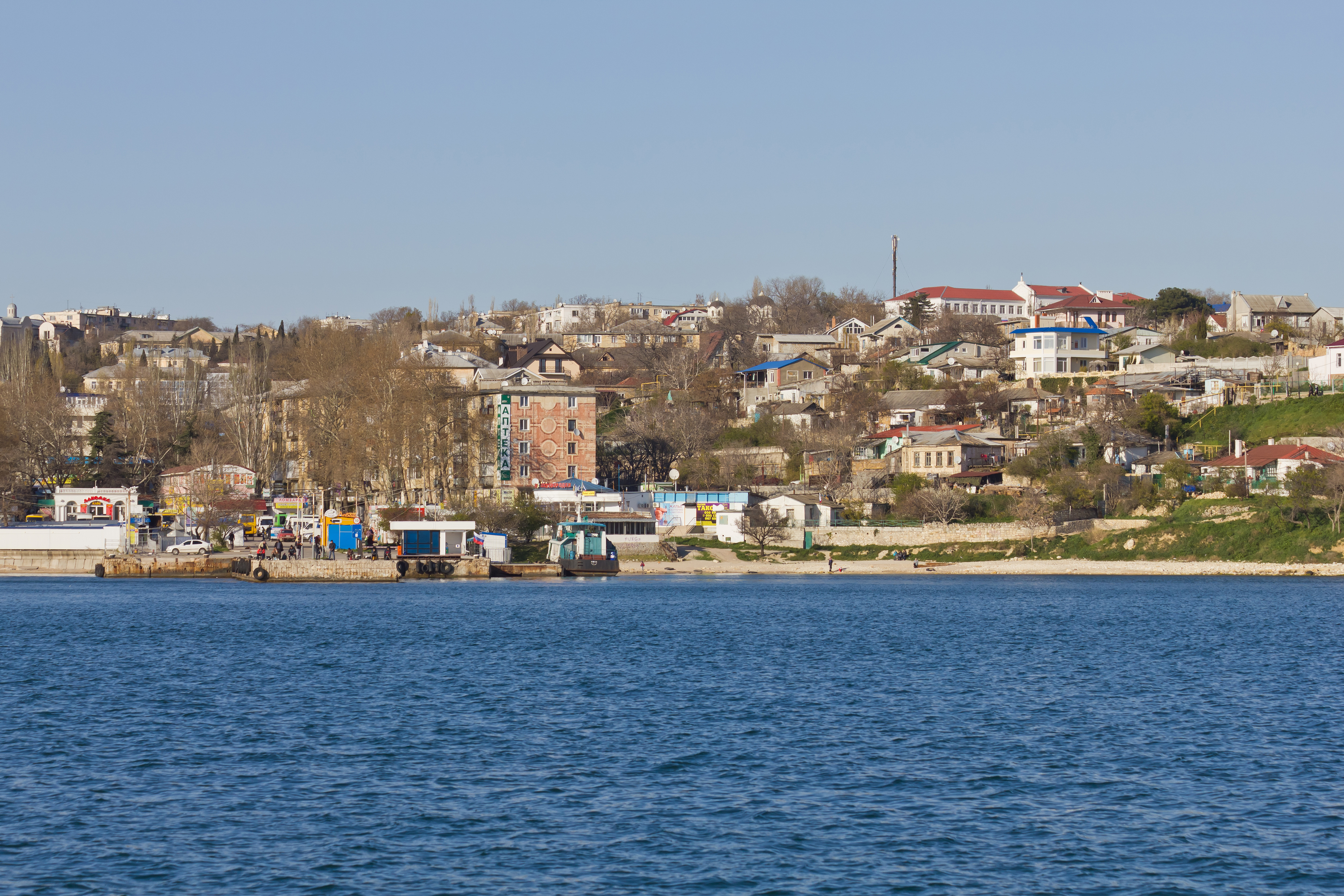 View from the ferry to the Northern Side in the Federal City of Sevastopol. Crimean peninsula.